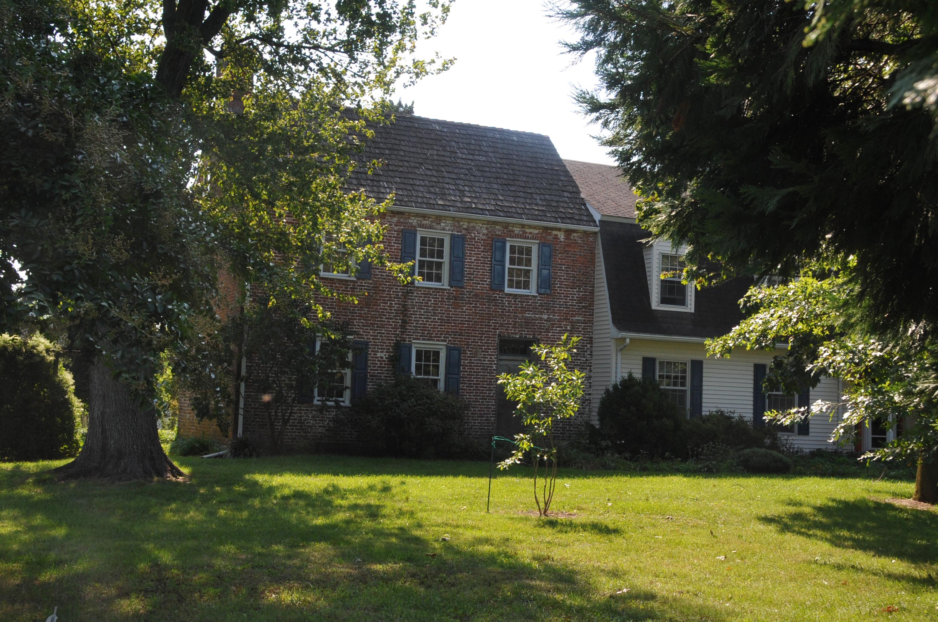 Bannister Hall and Baynard House ALSO KNOWN AS FOX HALL; BUILT IN 1750. THE RIGHT HAND PORTION IS A LATER ADDITION. BANNISTER HALL IS A SEPARATE HOUSE BUT CLOSE BY